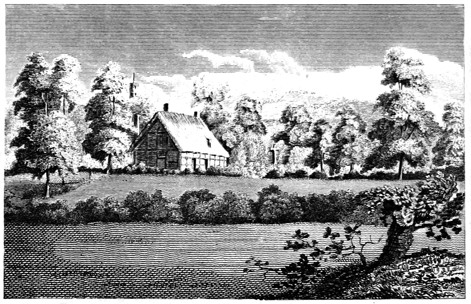 Plate of Butler's Tenement, Strensham, Worcestershire; from Volume 1 of Hudibras, by Samuel Butler, edited by Henry George Bohn